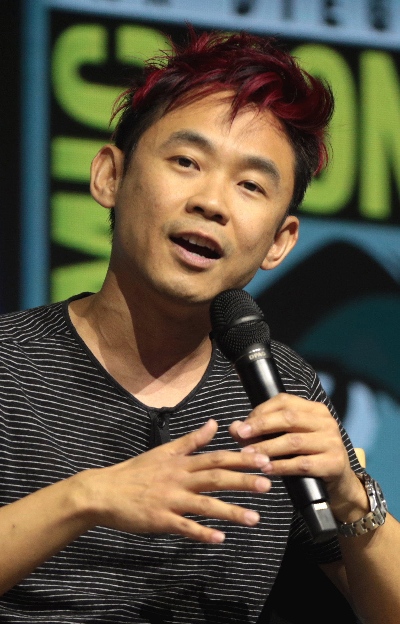 James Wan speaking at the 2018 San Diego Comic-Con International in San Diego, California.